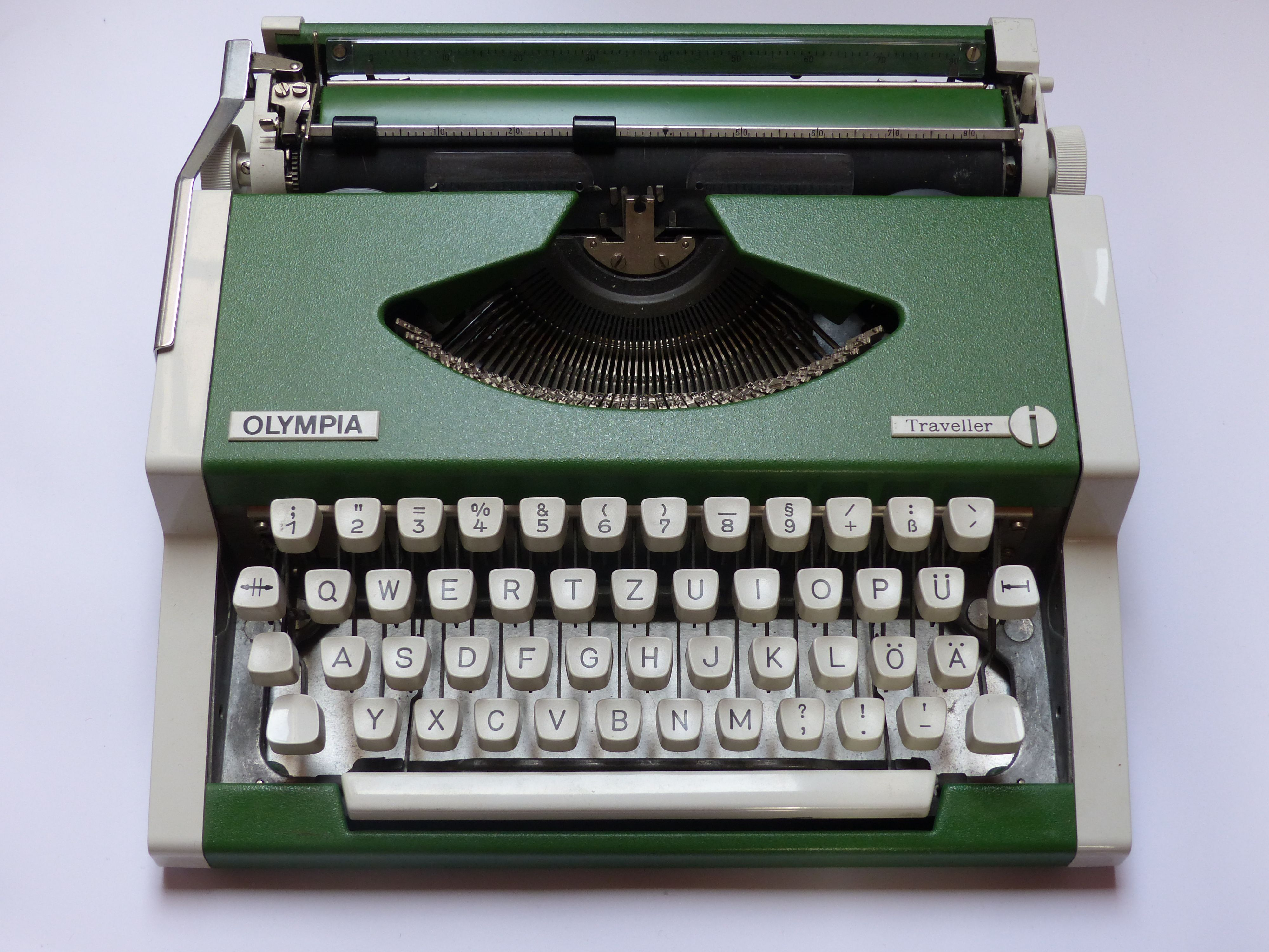 Olympia Traveller. The Serial number is #15-5864786, so it was produced after 1980.